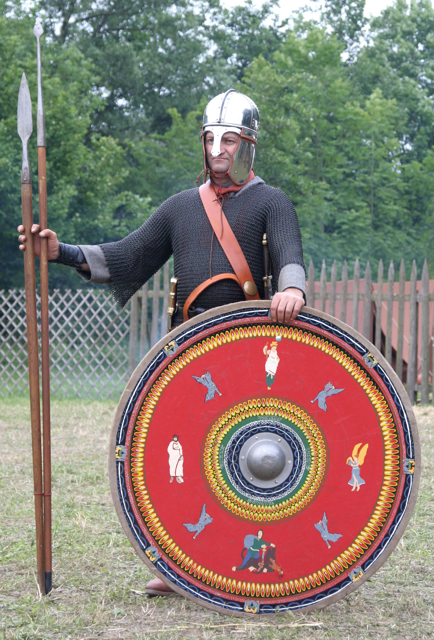 Roman soldier end of third Century from a northern province. Photographed by myself during a show of Legio XV from Pram, Austria